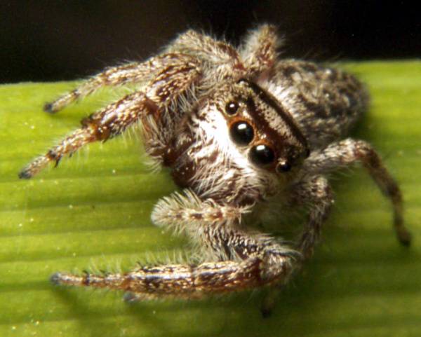 Eris species (Salticidae) from Winfield, Illinois.